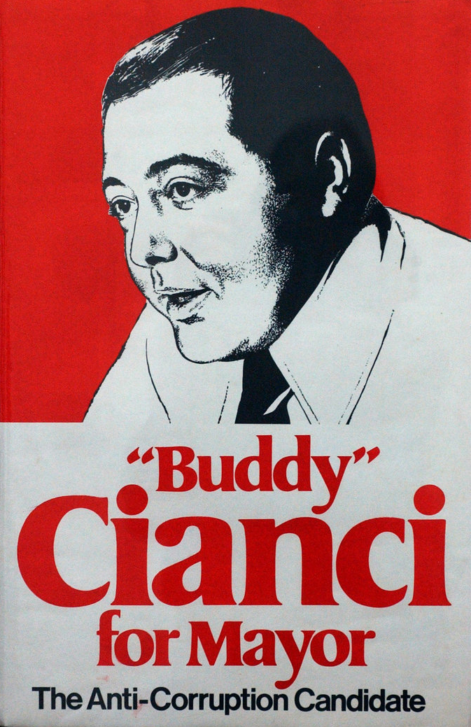 A Buddy Cianci campaign poster from his first campaign in 1974 for mayor of Providence when he ran as the anti-corruption candidate.